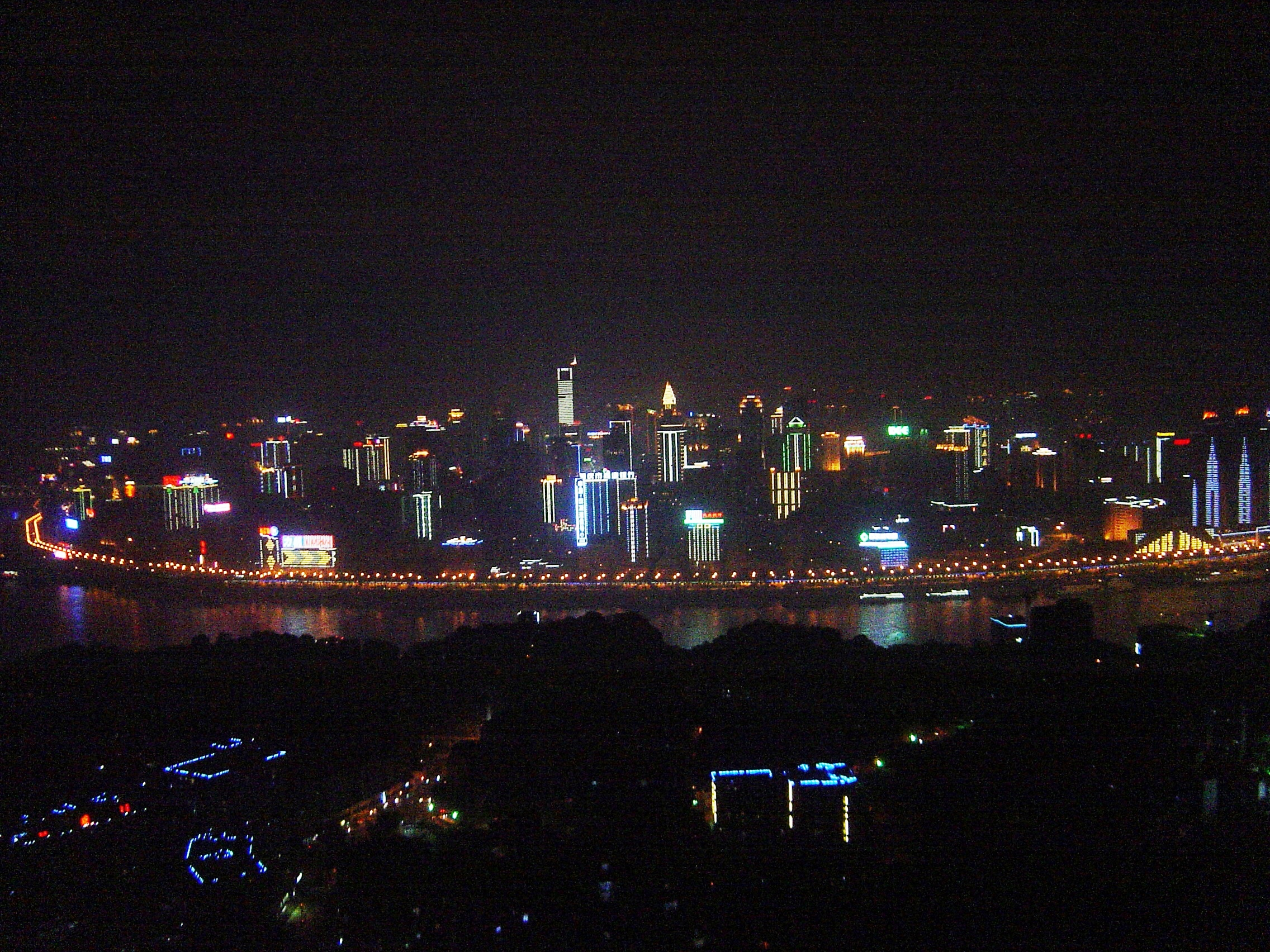 A night view of Yuzhong peninsula,Chongqing. This photo has been taken by Mr.Chen Hualin.